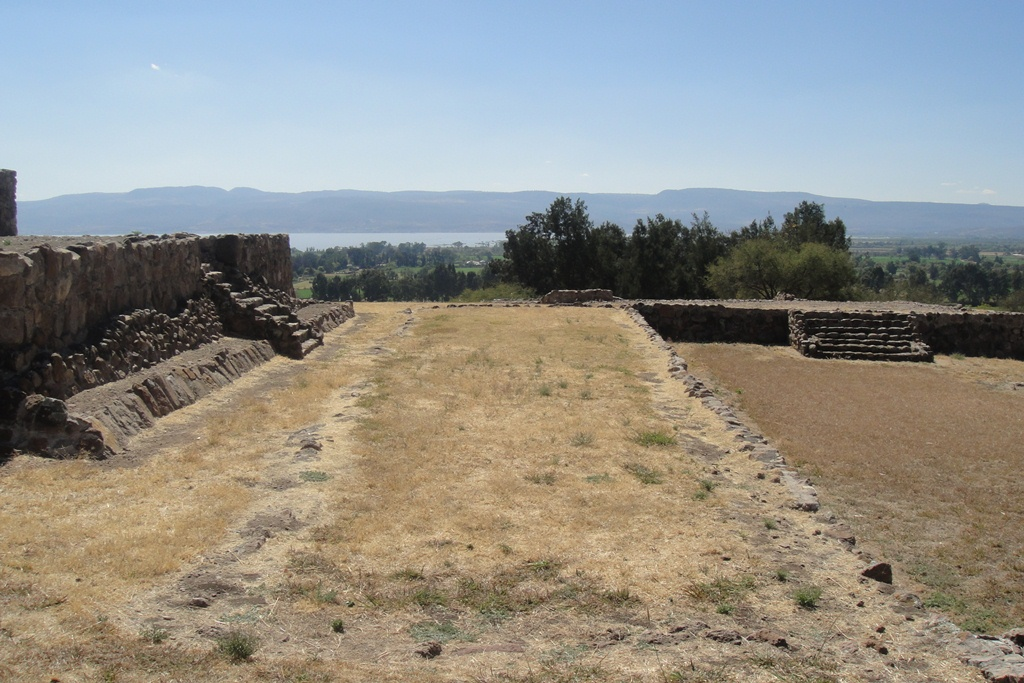 Template:Huandacareo, Main Structure, temple and patio